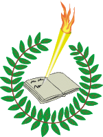 New logo of Story-Olympiade since 2009